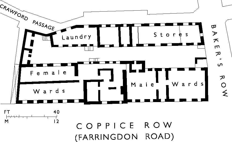 Clerkenwell Workhouse ground plan 1874.